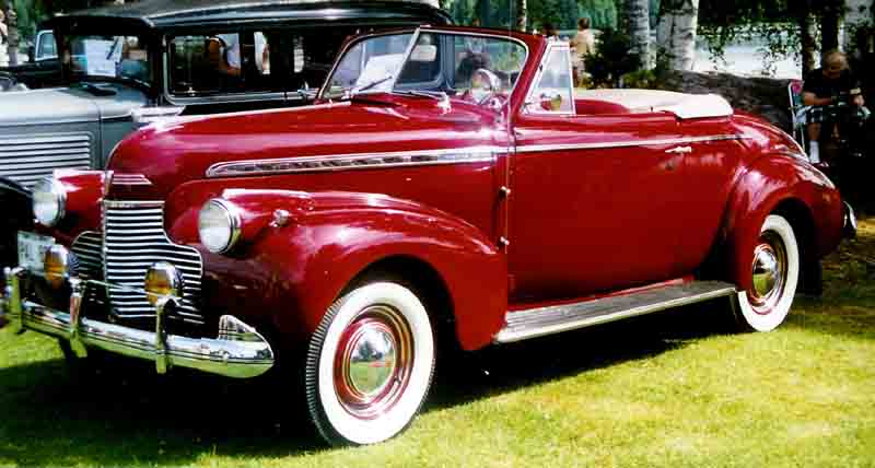 1940 Chevrolet Special Deluxe Series KA Convertible Coupe